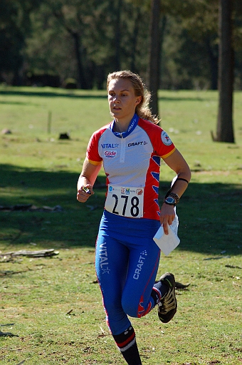 Silje Jahren (NOR) at JWOC 2007 (Long distance)